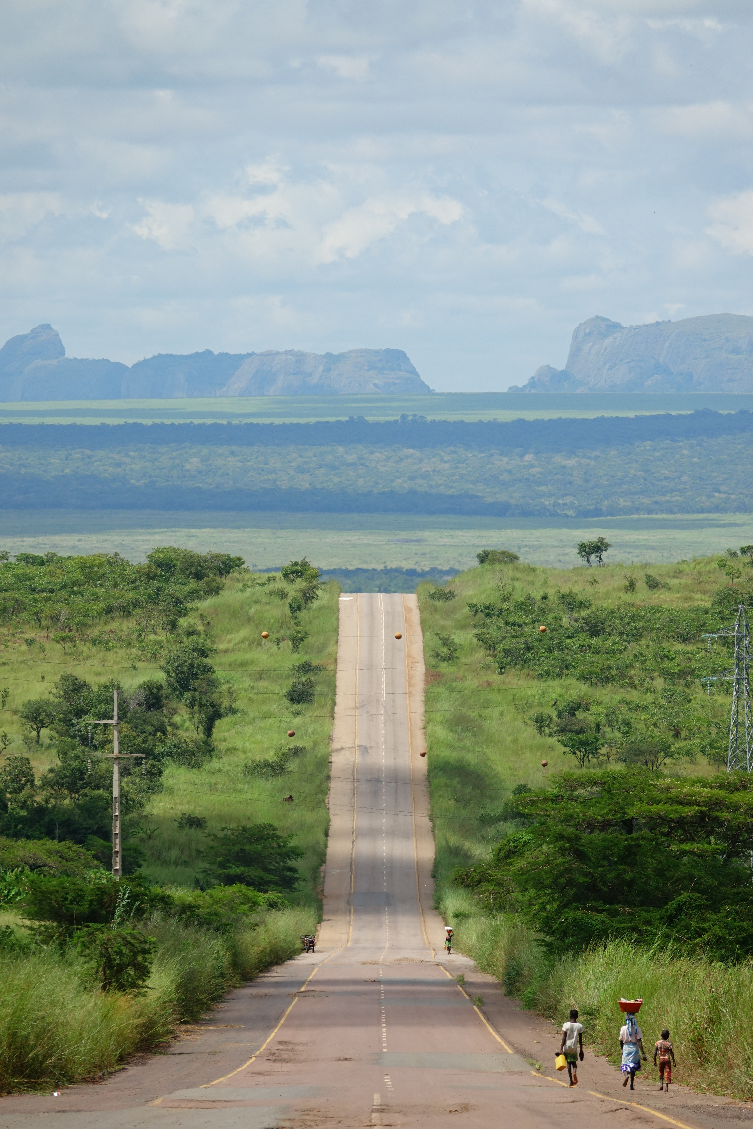 Road near Pedras Negras de Pungo Andongo, Malanje